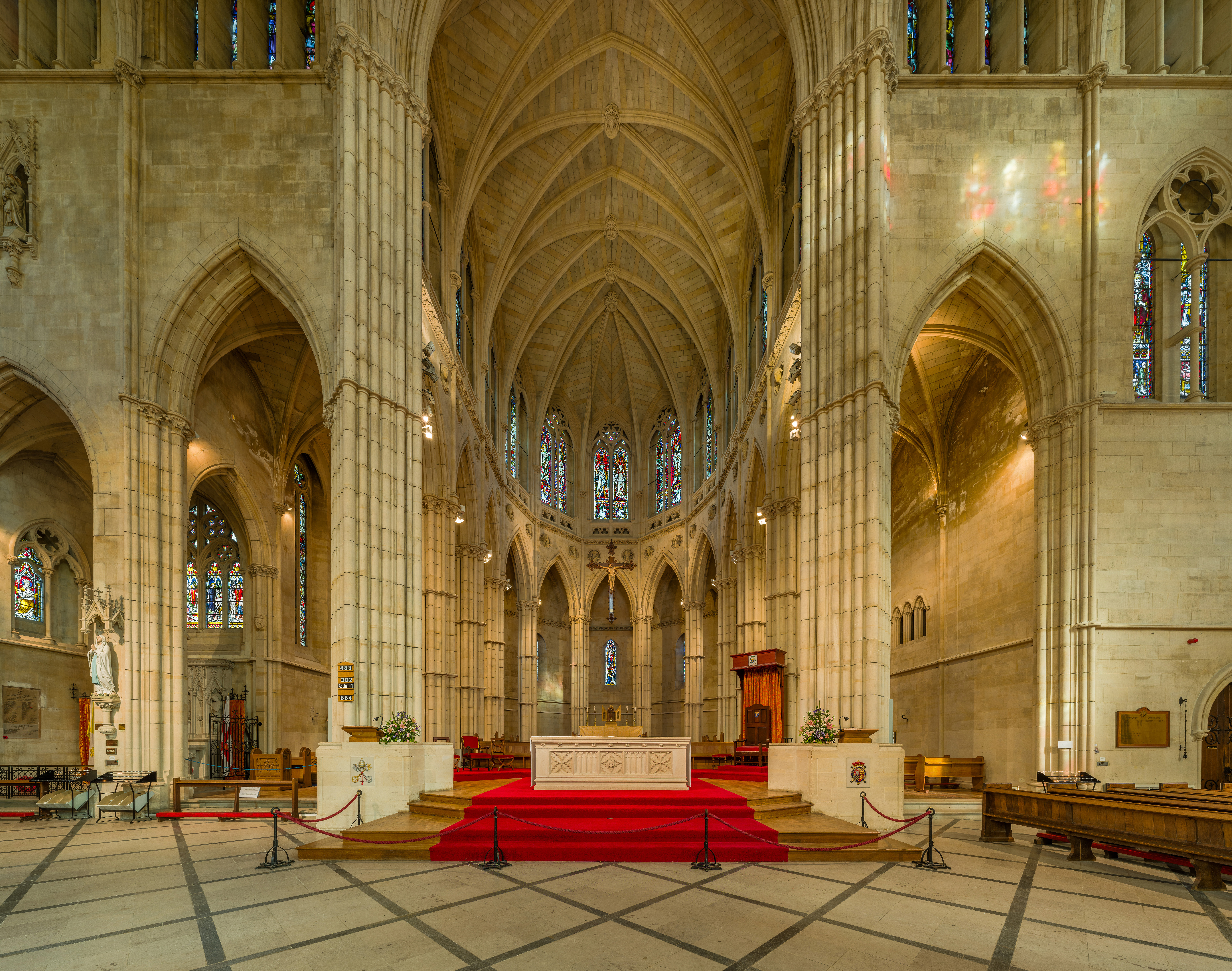 The sanctuary of Arundel Cathedral looking east, in West Sussex, England.